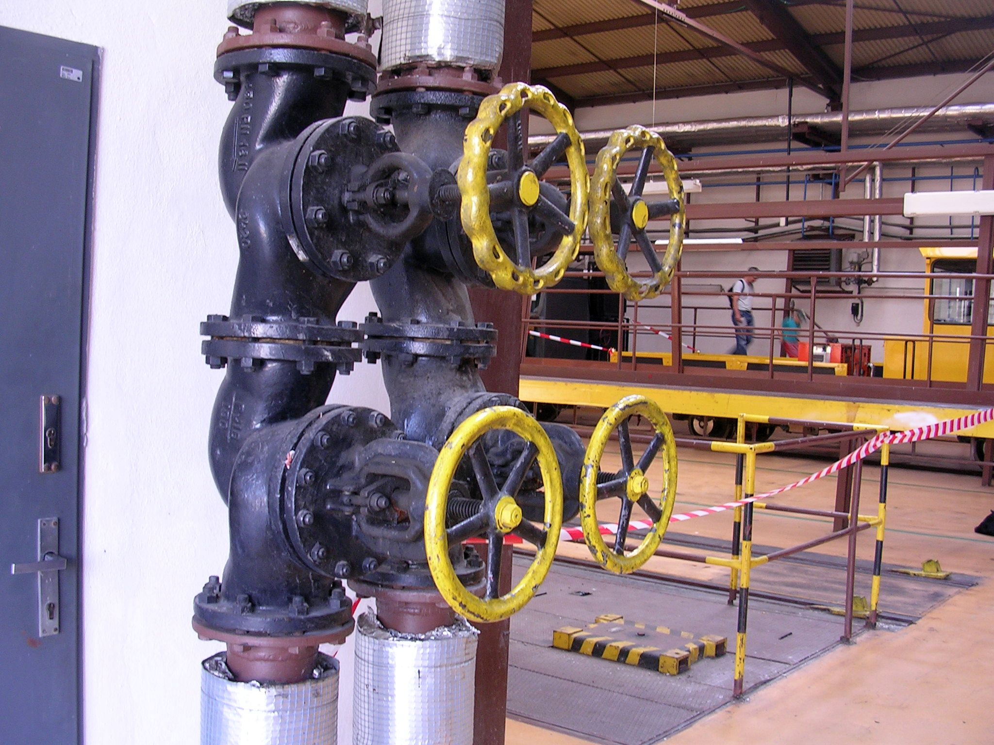 Třebonice, Prague, the Czech Republic. Open Doors Day in Zličín metro depot. Valves. - Google Maps - Google Earth